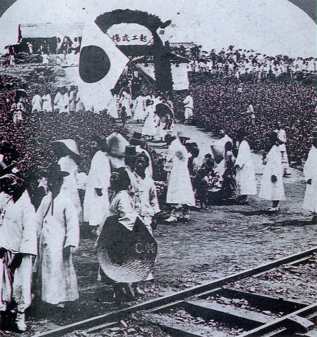 Groundbreaking ceremony of Gyeongbu Line at Busan